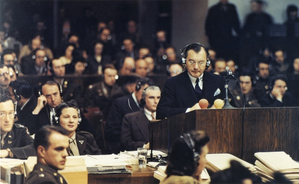 Chief American prosecutor Robert H. Jackson addresses the Nuremberg court.